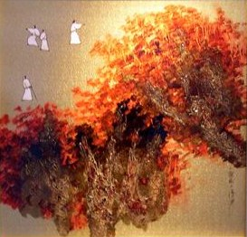 Xiaolong's work before Shanghai Studio